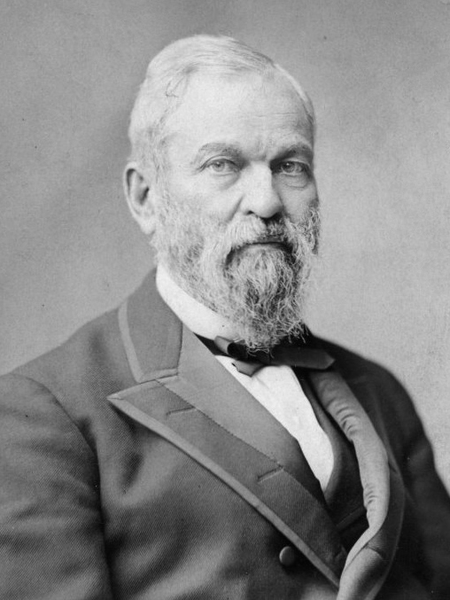 Unknown